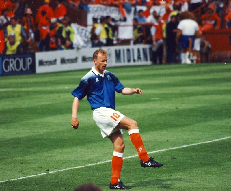 Dennis Bergkamp warming up for a Holland vs Scotland at Euro 96, Villa Park, England.